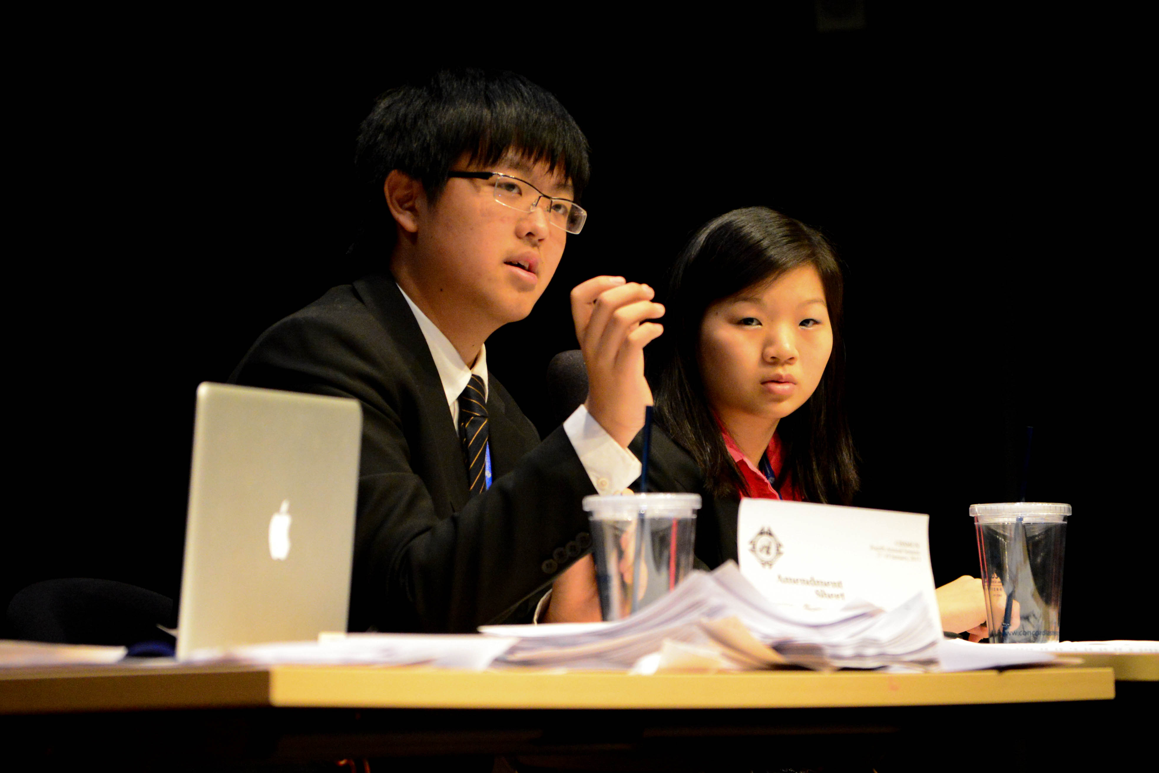 Steven Pan, Victoria Chen chairing in Security Council.